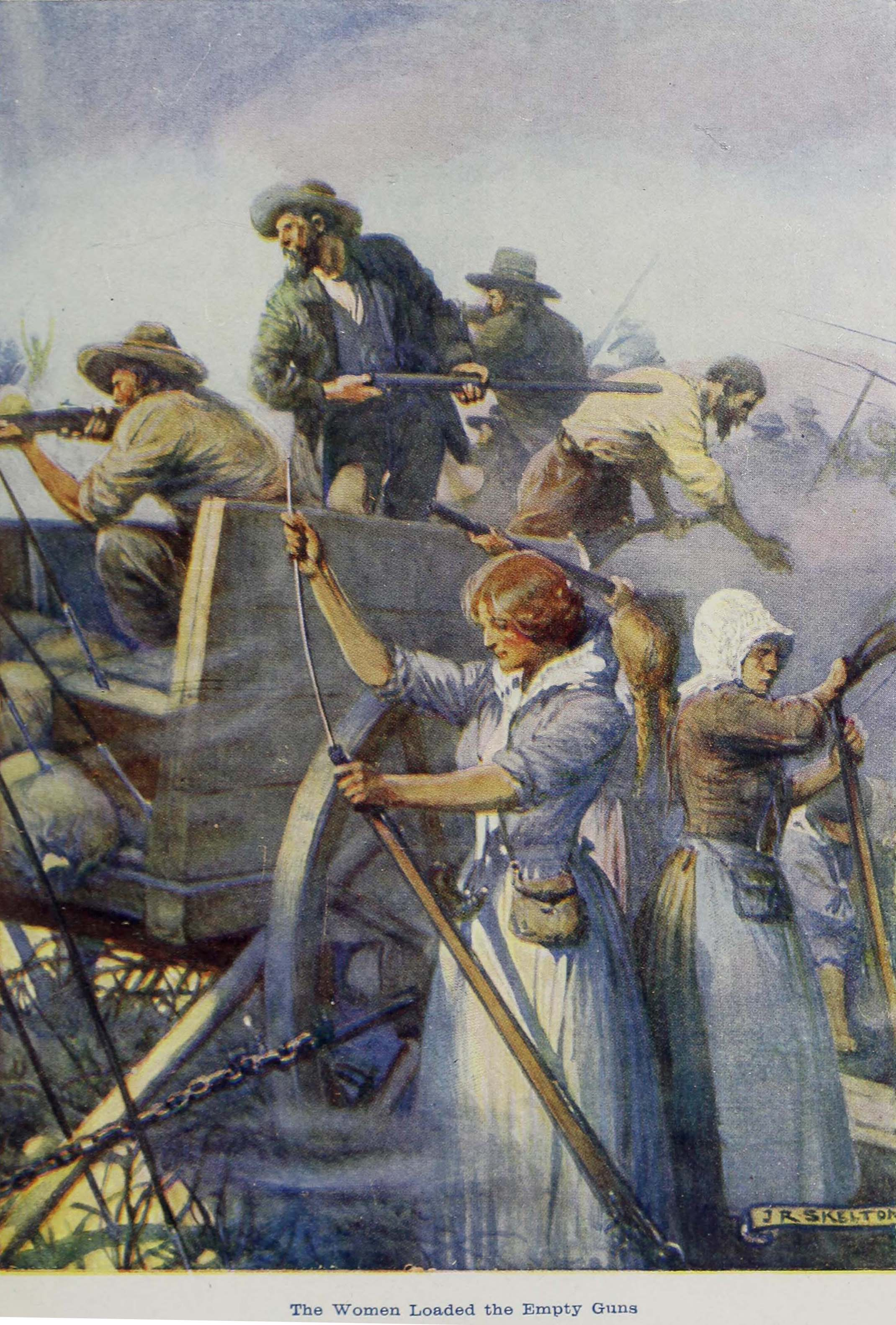 The Women Loaded the Empty Guns